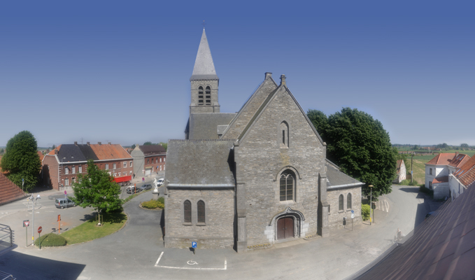 Néchin (Belgium), Saint Amandus church